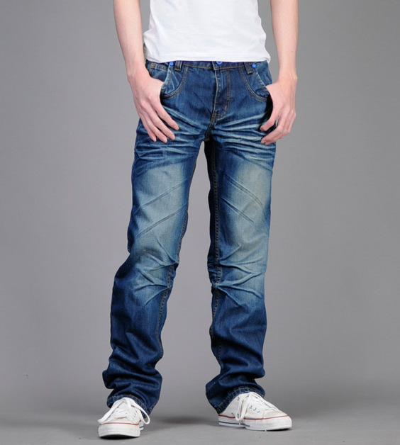 jeans for men